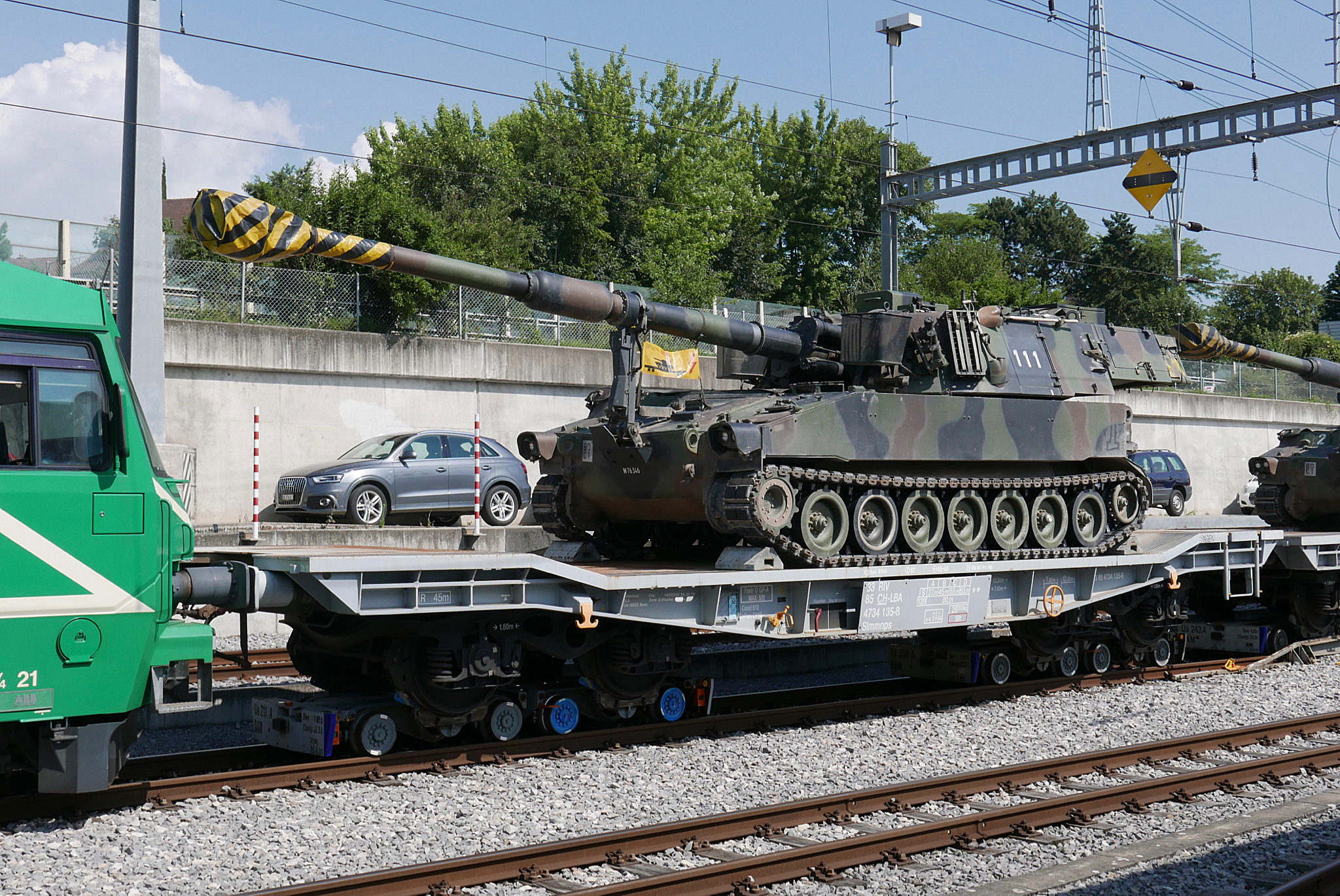 LBA/BLA/BLEs Slmmnps 33 85 4734 135-8 CH-LBA at Morges train station.